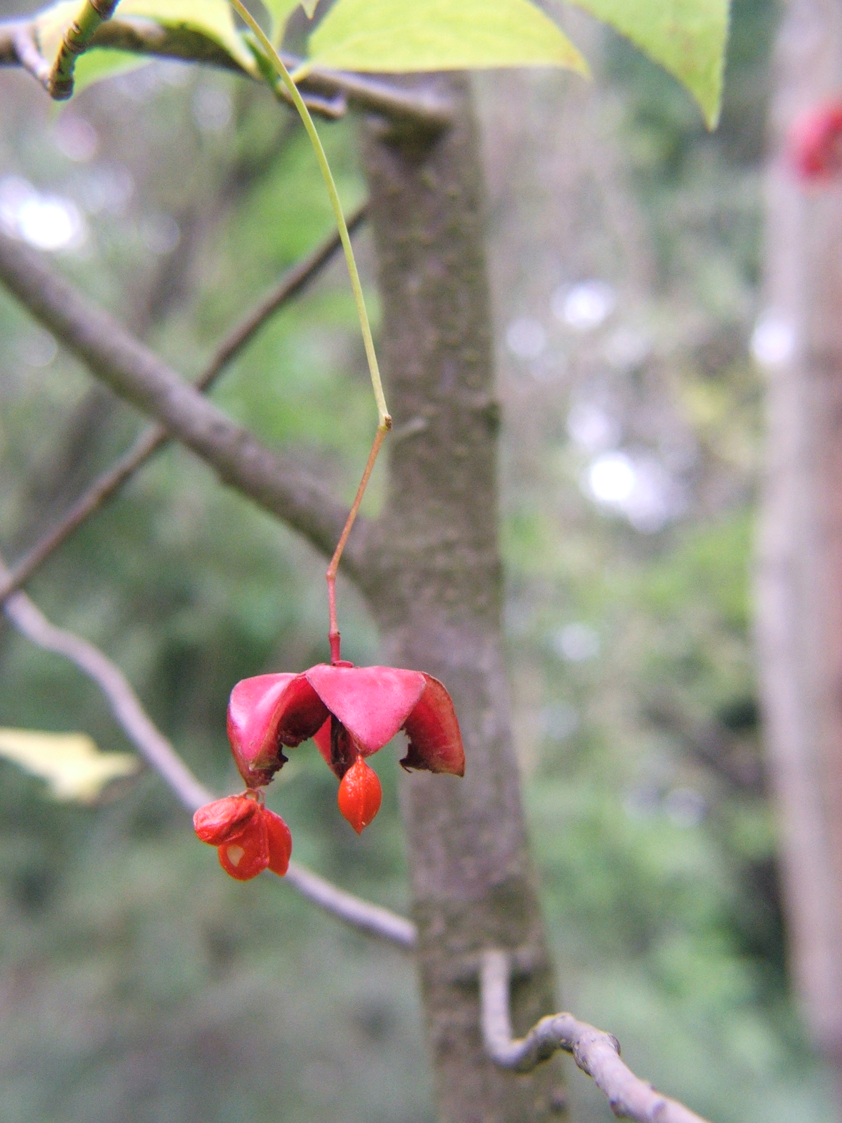 Fruit of Euonymus planipes.